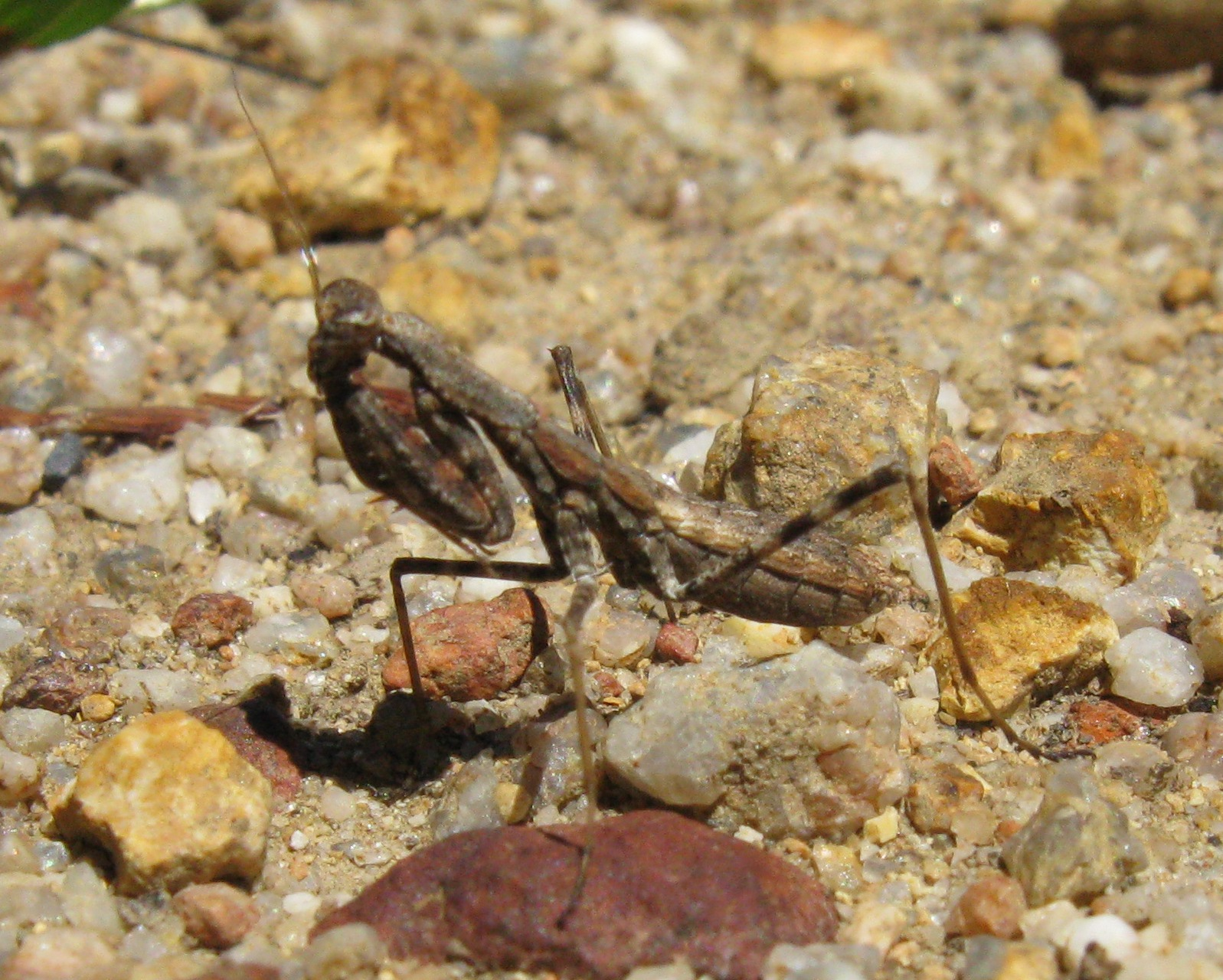 This might be an immature male Ligariella or Ligaria; its behaviour is remarkable for a mantid, darting about on open ground in hot sun, like a tiger beetle.